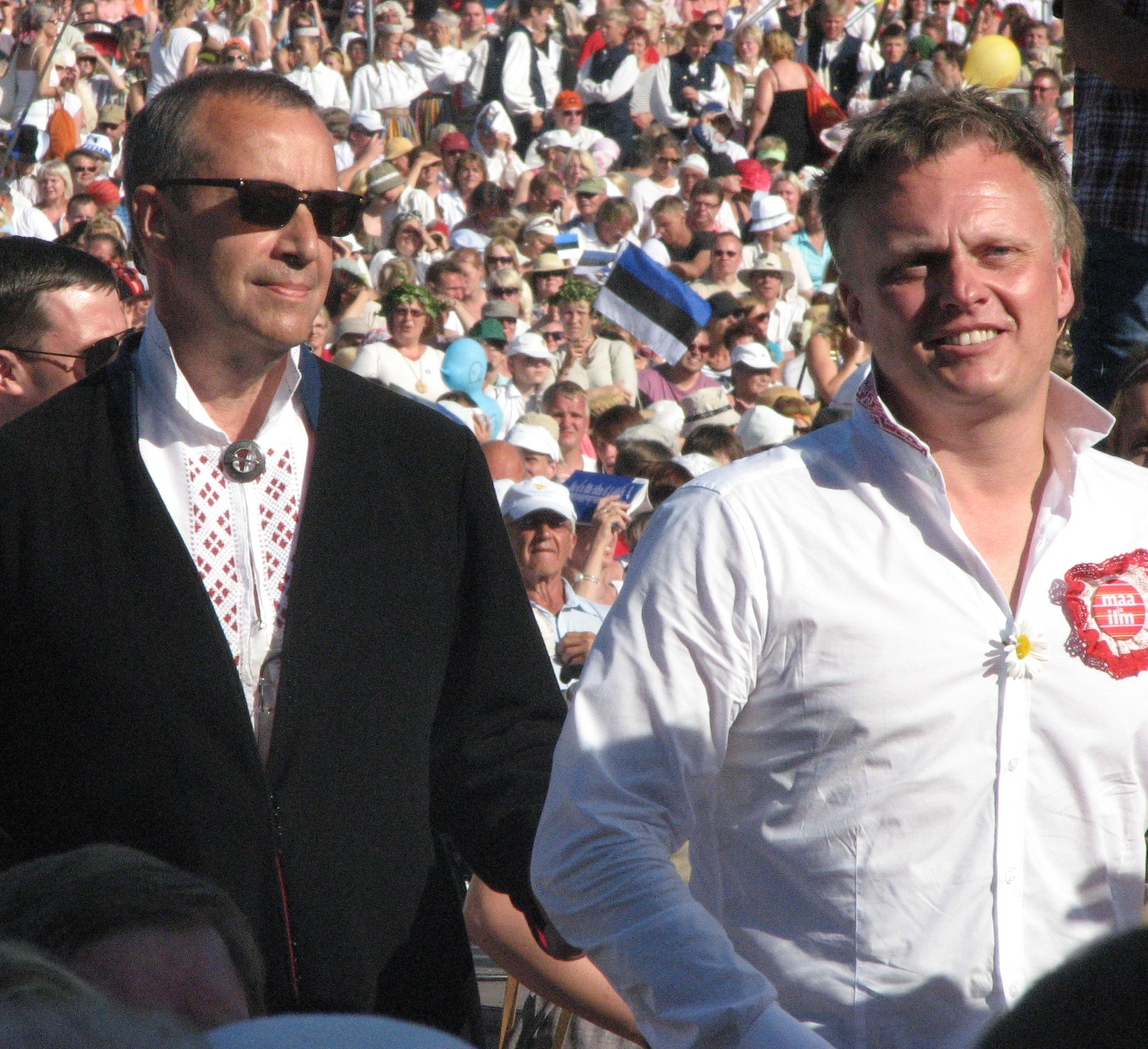 Toomas Hendrik Ilves and Imre Sooäär dancing in 11th Youth Song and Dance Celebration